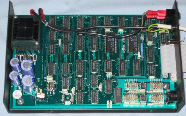 Acorn Music 500 with top cover off.The Acorn Music 500 is a computer-based music synthesiser. It was designed, in 1984, by Hybrid Technology for Acorn. The Music 500 connects to the 1MHz bus. and is programmed in its own language called AMPLE. Hybrid Technology went on to design and produce the Hybrid Music System with addition components including: Music 2000, MIDI interface Music 3000, extender Music 4000, 4 octave keyboard Music 5000 , synthesiser The Music 500 could be upgraded to the Music 5000 with a minor hardware upgrade so that it worked on the Master) and upgraded software.